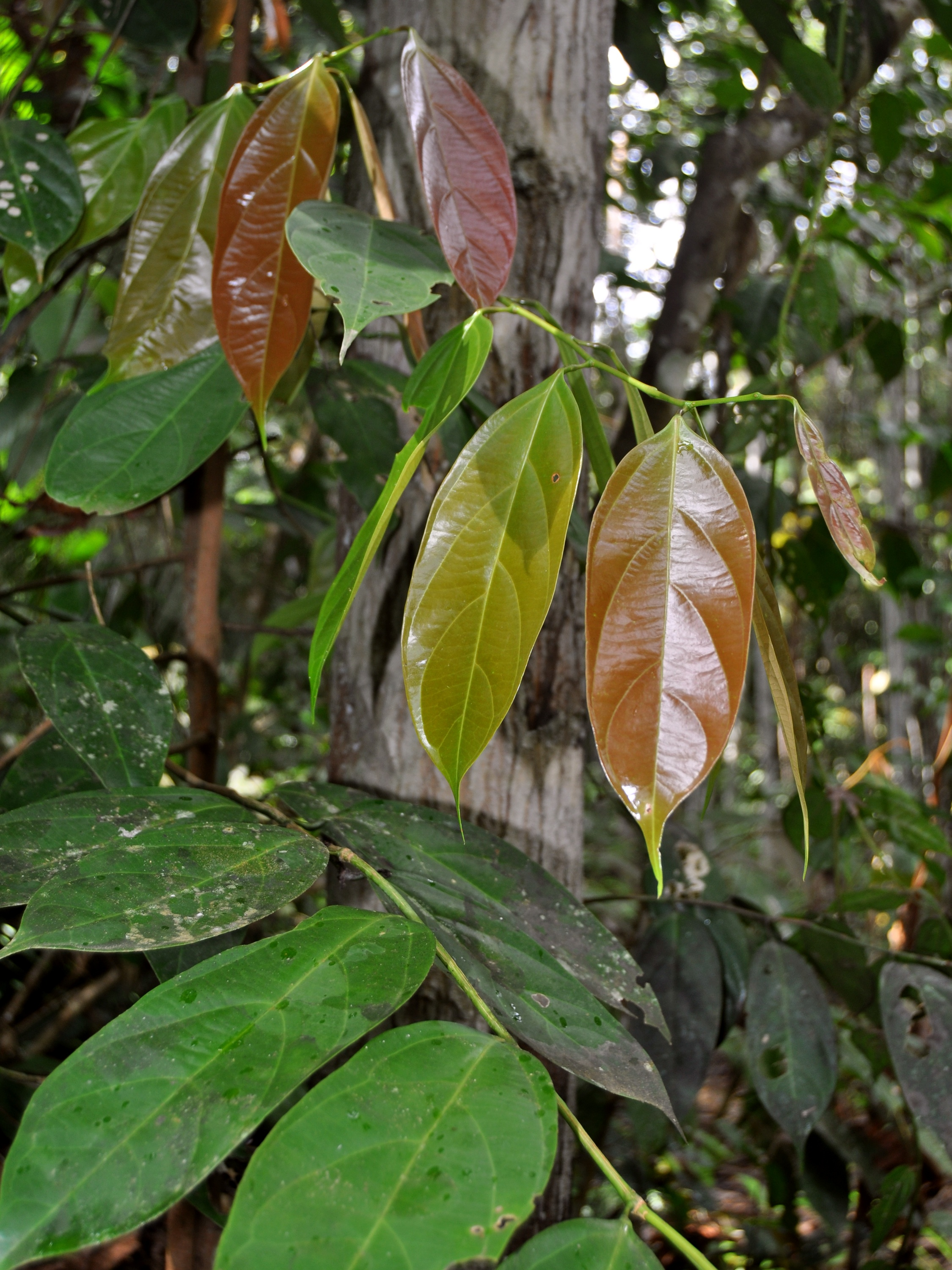 Scorodocarpus borneensis twigs & leaves; from Jambi, Sumatra, Indonesia.